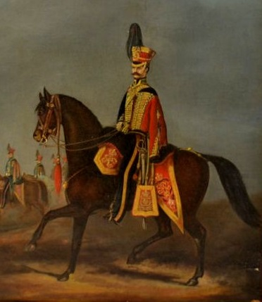 Portrait of an Officer of the 15th King's Hussars mounted on his Charger